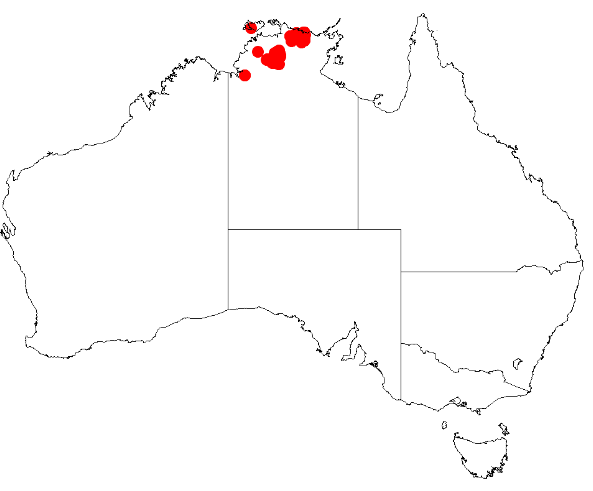 Acacia cataractae Occurrence data from Australasia Virtual Herbarium downloaded from on 8 December 2018